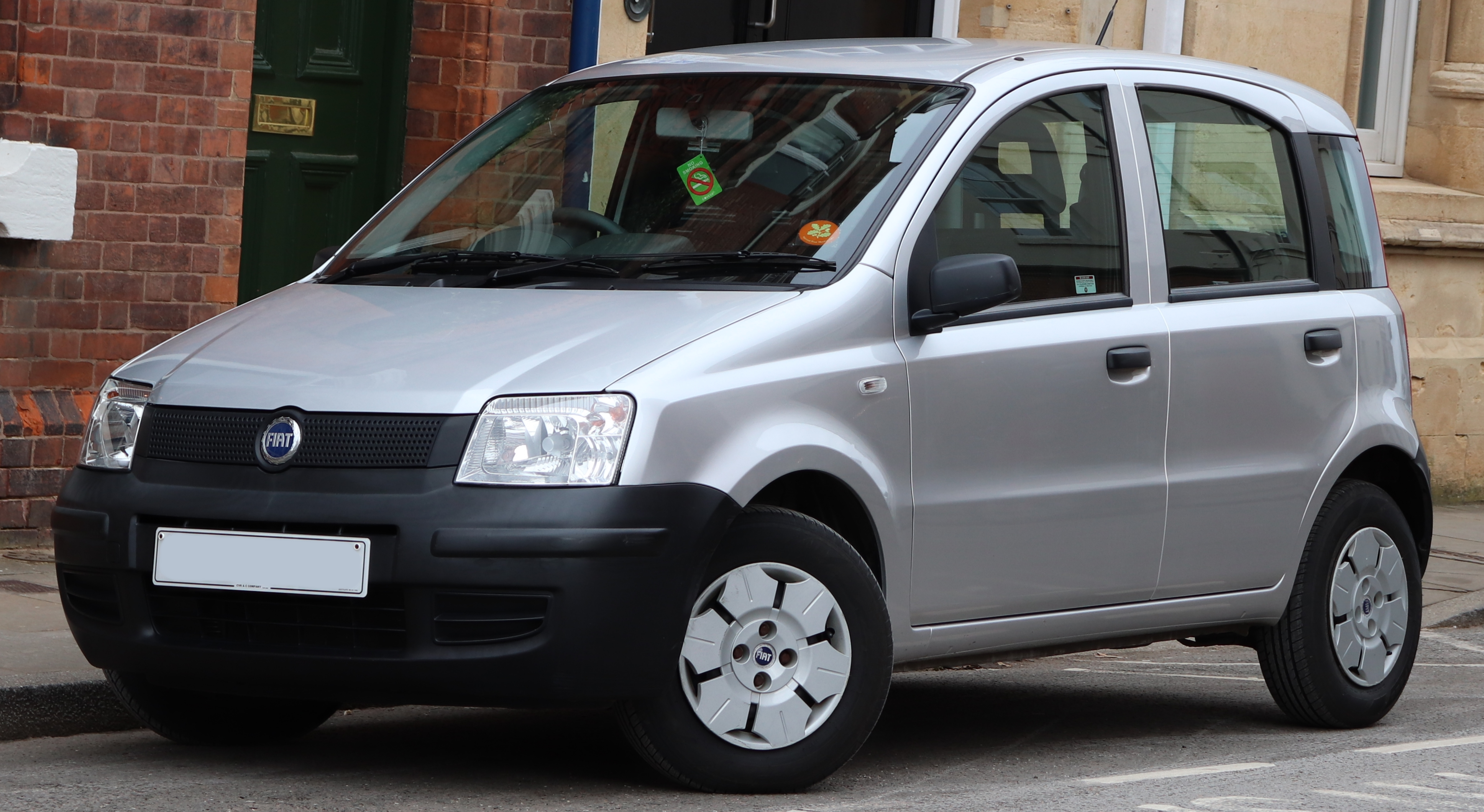 2007 Fiat Panda Active 1.1 Front Taken in Warwick